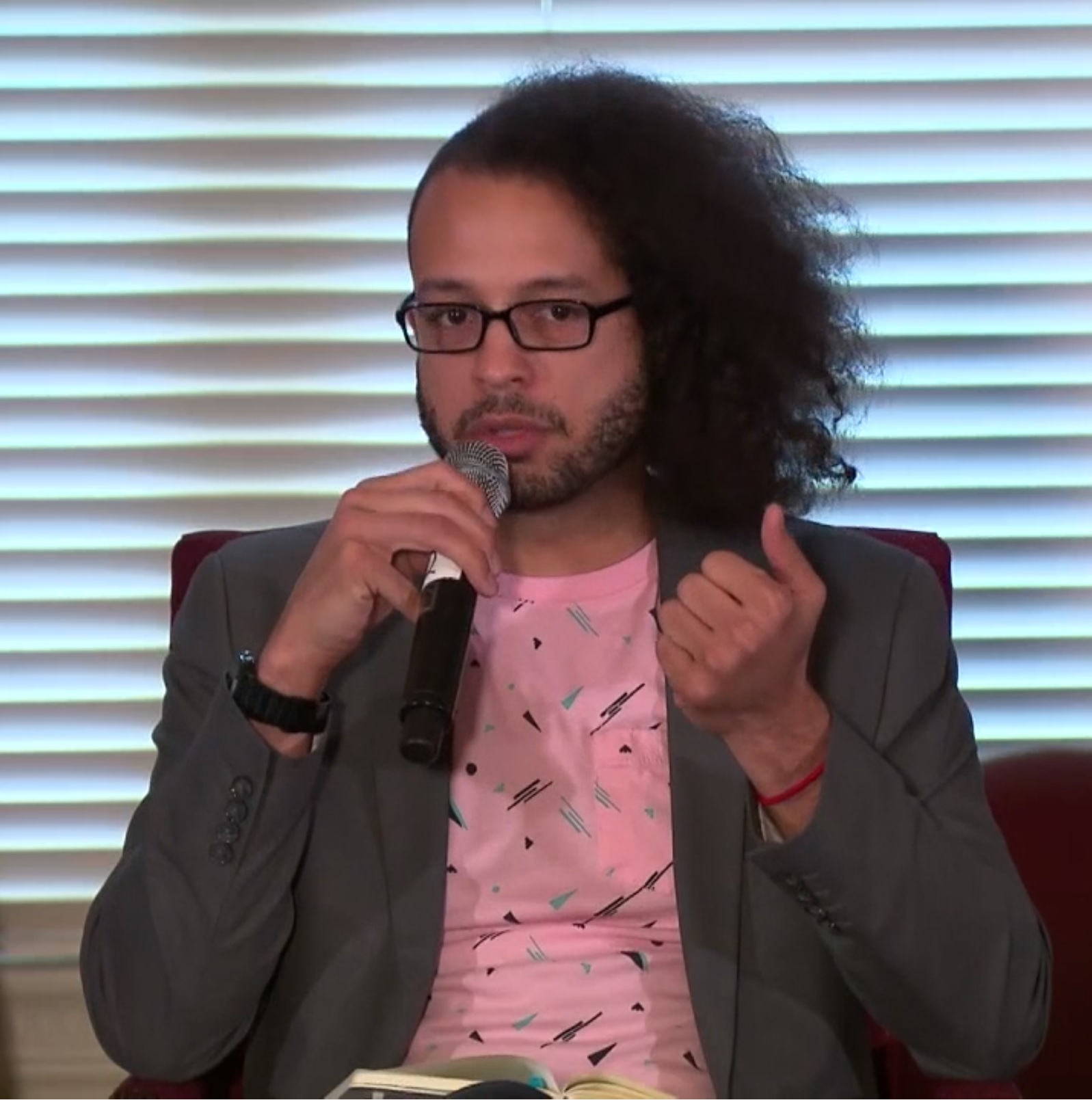 Title Becoming Interplanetary Summary This symposium, hosted by Lucianne Walkowicz, the Baruch S. Blumberg NASA/Library of Congress Chair in Astrobiology at the Library's John W. Kluge Center, featured panel discussions on how current narratives, policies and laws frame human exploration and presence in space. The panels included a diverse group of thought leaders including astrobiologists, anthropologists, policy experts, artists and journalists whose work has relevance to the human exploration of Mars. The panels included "Becoming Interplanetary" with Brenda J. Child, Brian Nord, Chanda Prescod-Weinstein and Ashley Shew; "Mars on Earth" with Dana Burton, Nathalie Cabrol, Bobak Ferdowsi and Margaret Huettl; and "Alternative Futurisms" with D. Denenge Duyst-Akpem, Willi Lempert, Enongo Lumumba-Kasongo and Ytasha Womack, plus performances by DXTR Splits, SAMMUS and D. Denenge Duyst-Akpem. Event Date September 27, 2018 Running Time 5 hours, 21 minutes, 47 seconds